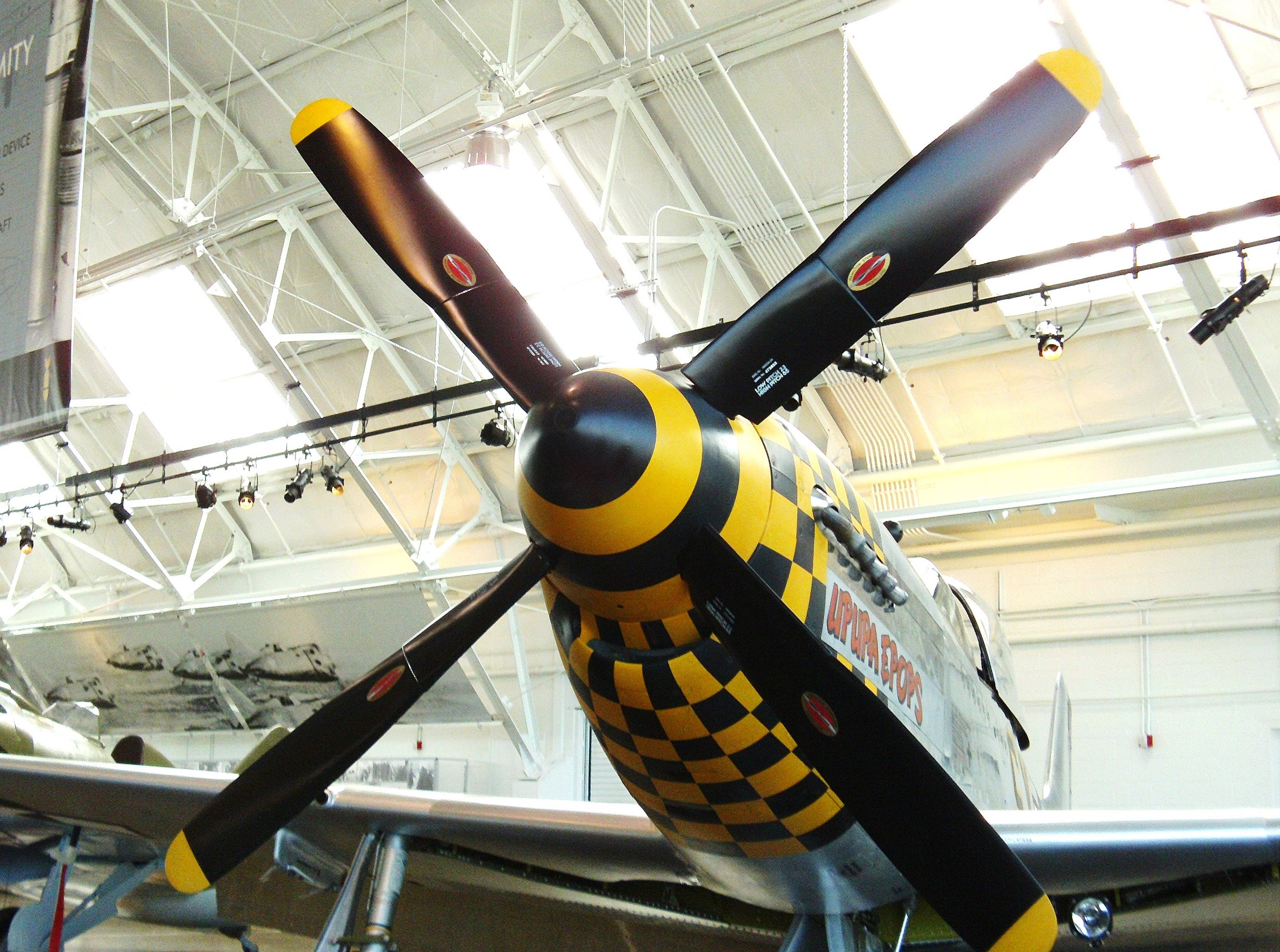 North American P-51D Mustang - Paine Field USA (USA (2010) - Front view propeller.